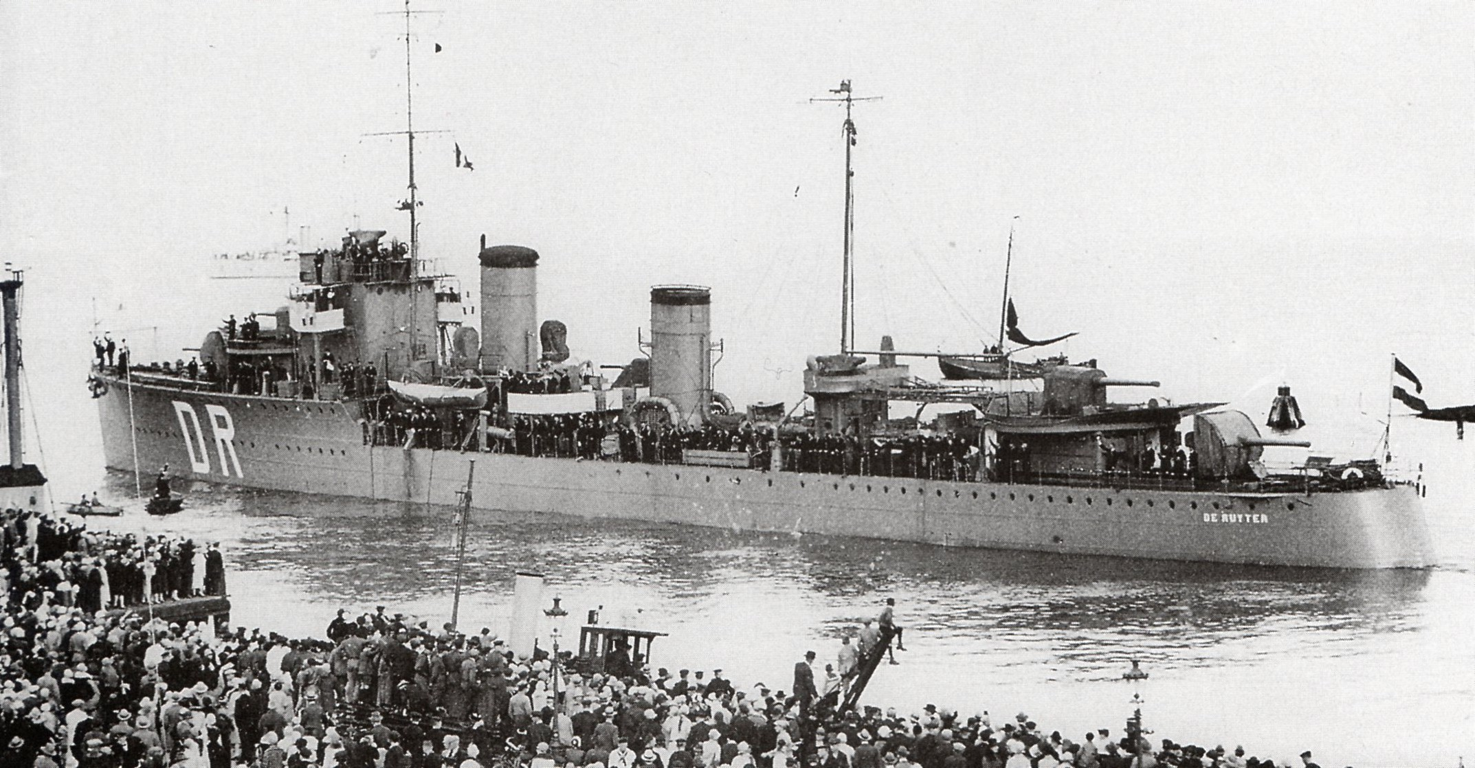 Dutch Admiralen class destroyer De Ruyter departing for the Dutch Indies